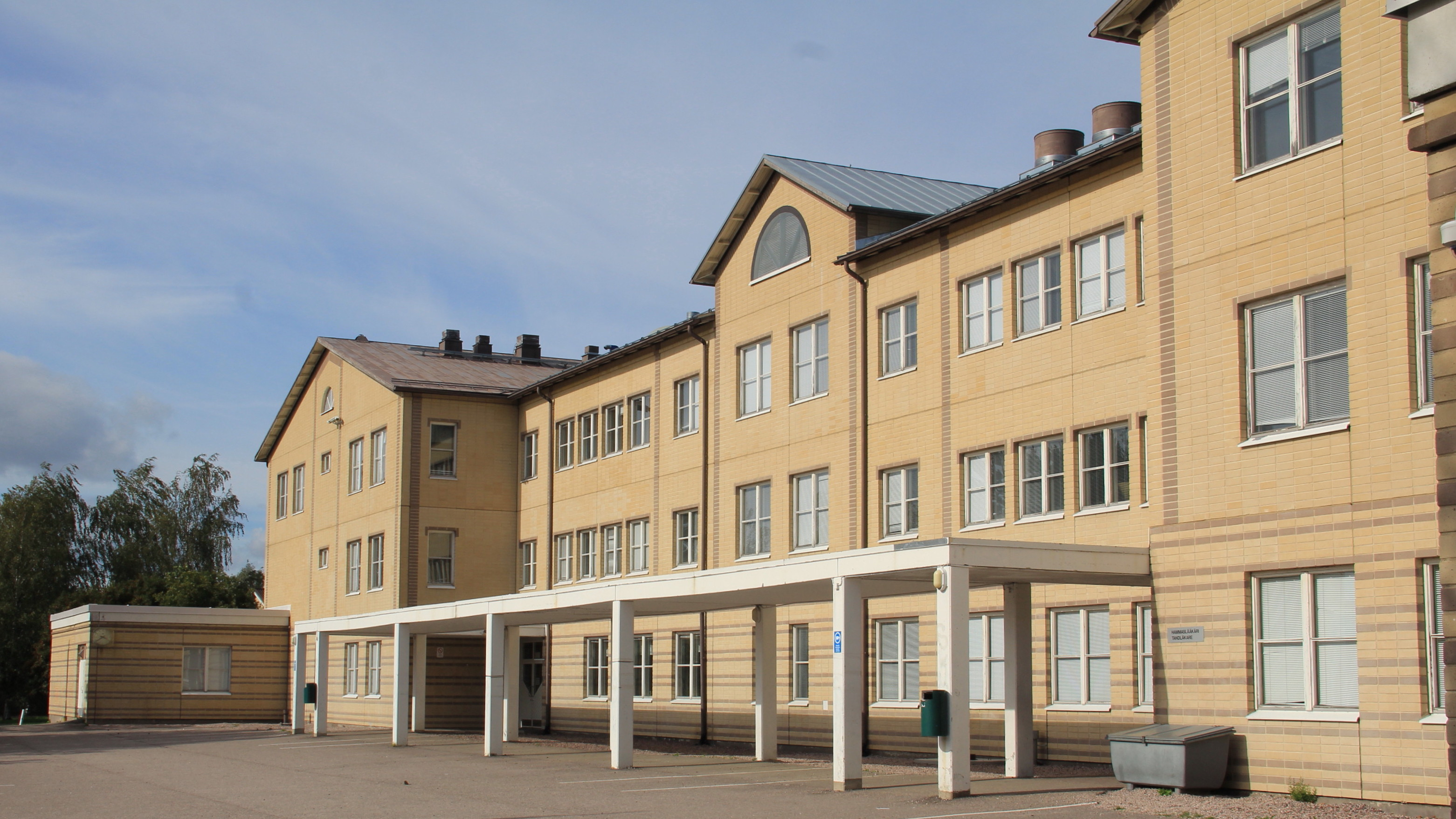 Nissiniku school upper grades in Masala, Kirkkonummi, Finland.